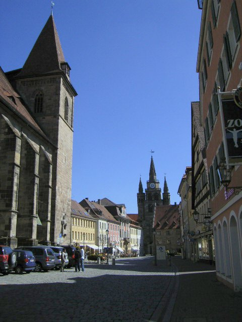 Town centre from Ansbach, Middle Franconia, Germany